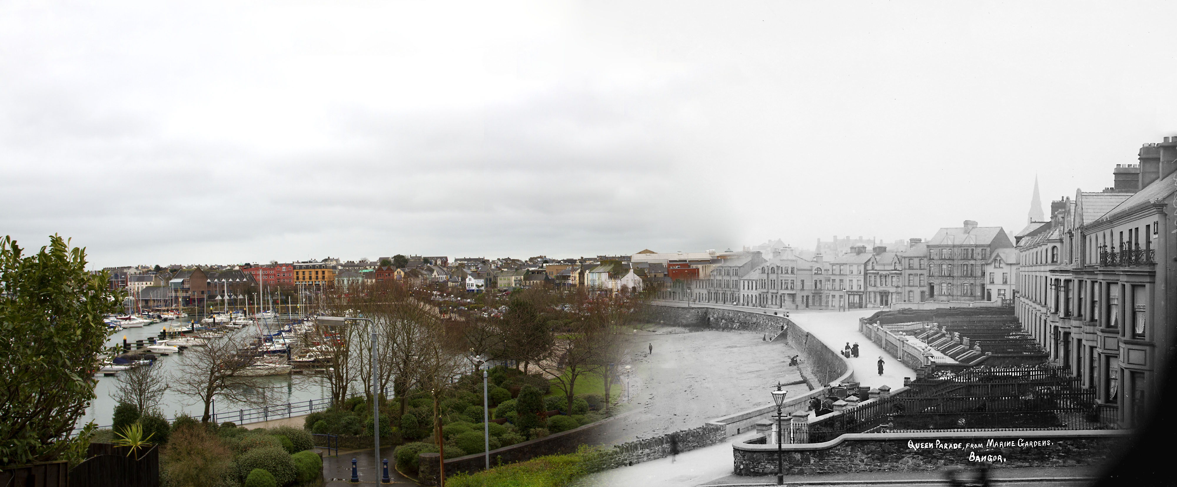 Creator: Photographer of archive image -Herbert Cooper Date: c.1910 & 23rd January 2015 Original Format: Glass Plate Negative Description: Queen's Parade from Marine Gardens, Bangor, County Down - merged with modern photograph of the same location. PRONI Ref (of archival image): D1422/A/2/1/3 Copying and copyright: Please For Copy Orders, contact: For fees and charges